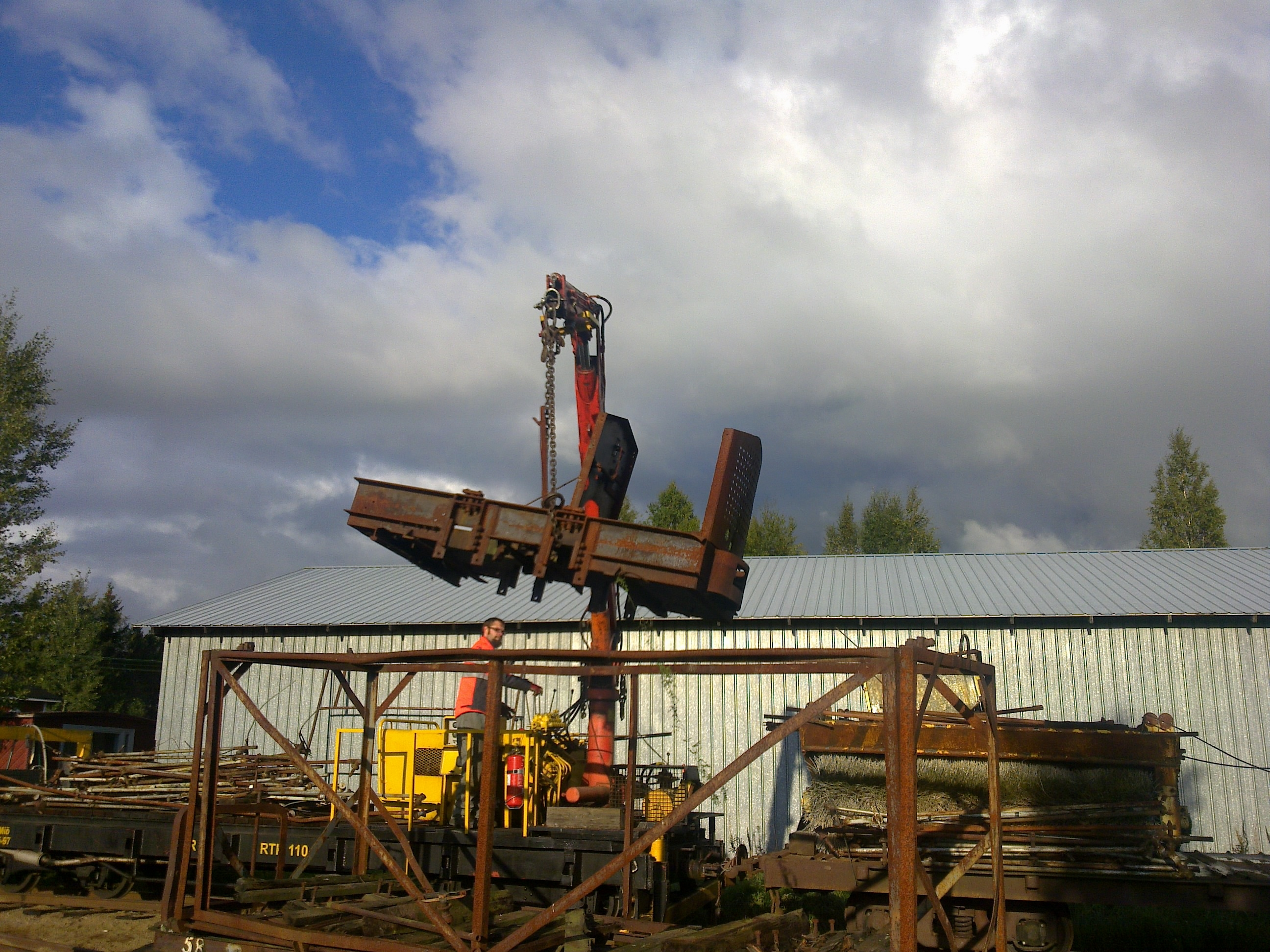 a narrow gauge engine body